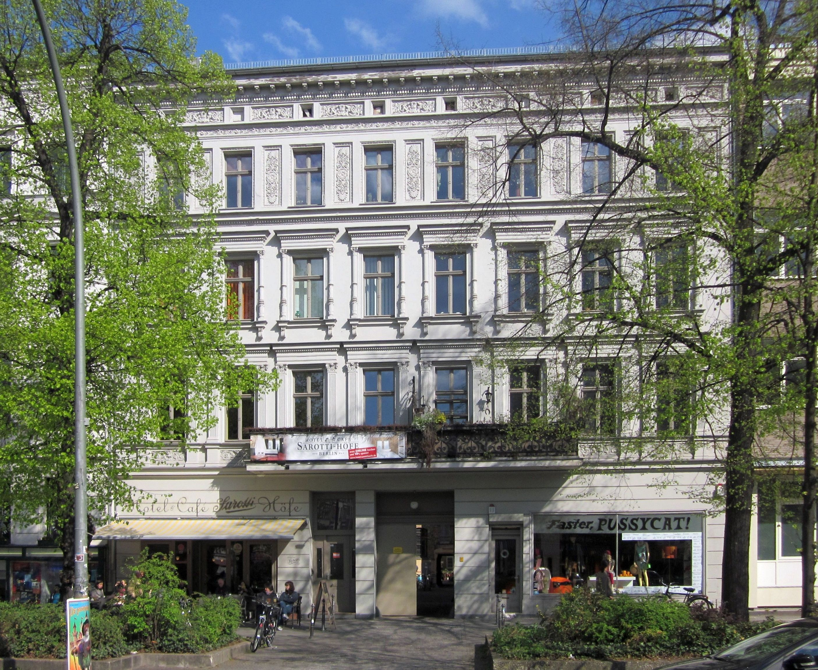 Residential building Mehringdamm No. 53 (Belle-Alliance-Straße 81 until bis 1946/47) in Kreuzberg, Berlin. The three-storey house with a small factory court in the rear part of the lot was built in 1862 by August Hahnemann. Starting in 1883, the rear buildings were used by the chocolate factory "Hoffmann & Tiede" and, after its merger with "Felix & Sarotti" in 1903, production continued under the new name Sarotti Chocolate and Cacao Industry AG. Although buildings at adjacent Mehringdamm No. 53 (Belle-Alliance-Straße 83) and Mehringdamm No. 55 (Belle-Alliance-Straße 82) were eventually also used, the premises soon turned out to be too small for the prospering company. Thus in 1913, Sarotti moved to Tempelhof, now a part of Berlin. The house Mehringdamm 57 and the former factory buildings are part of the protected historic buildings area Quartier Riehmers Hofgarten.